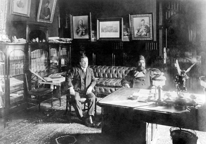 Millioner Tagiyev in own house